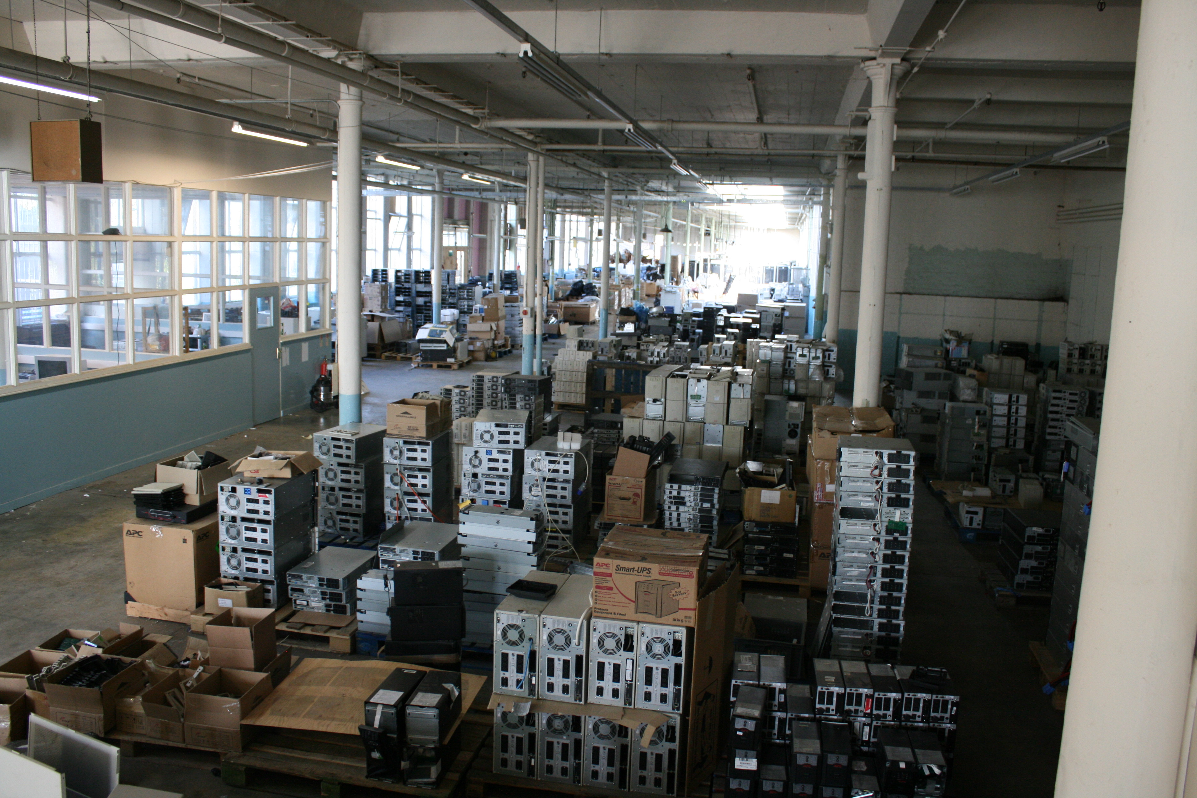 UPS Warehouse Occupation circa summer 2011